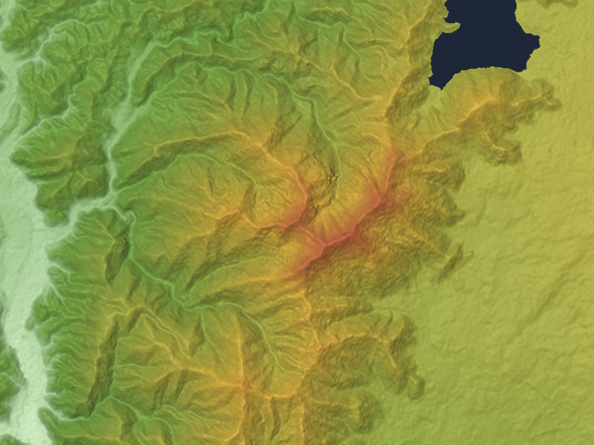 Mount Kenashi in the border between Shizuoka and Yamanashi Prefectures, Honshu, Japan.